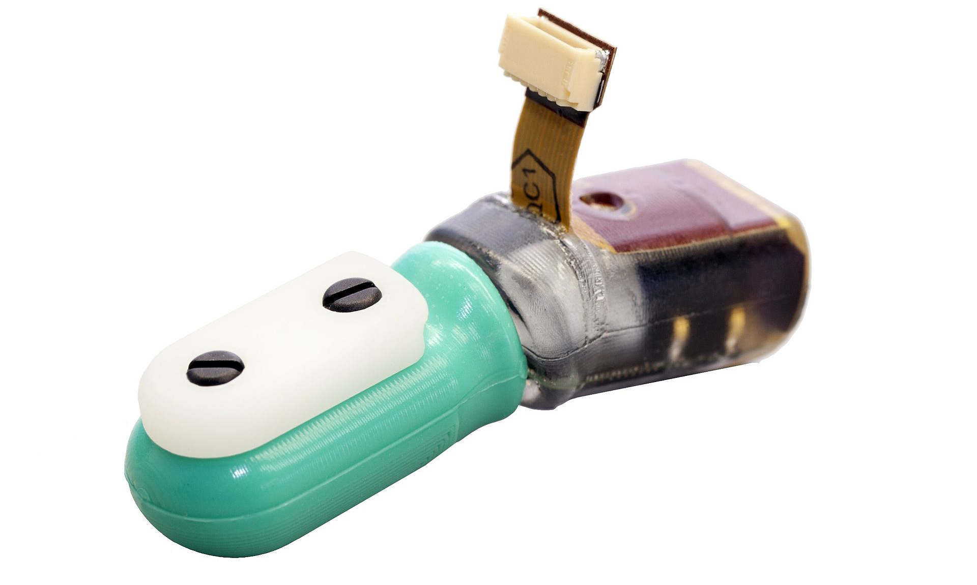 Replacement sensors are vital to space ship environmental systems, and must be fabricated on demand.